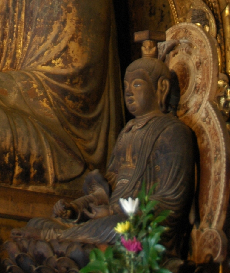 Sitting Monju Bosatsu inside of the Eastern Golden Hall (東金堂, tōkon-dō) of Kōfuku-ji in Nara, Japan. The statue has been designated as National Treasure of Japan.